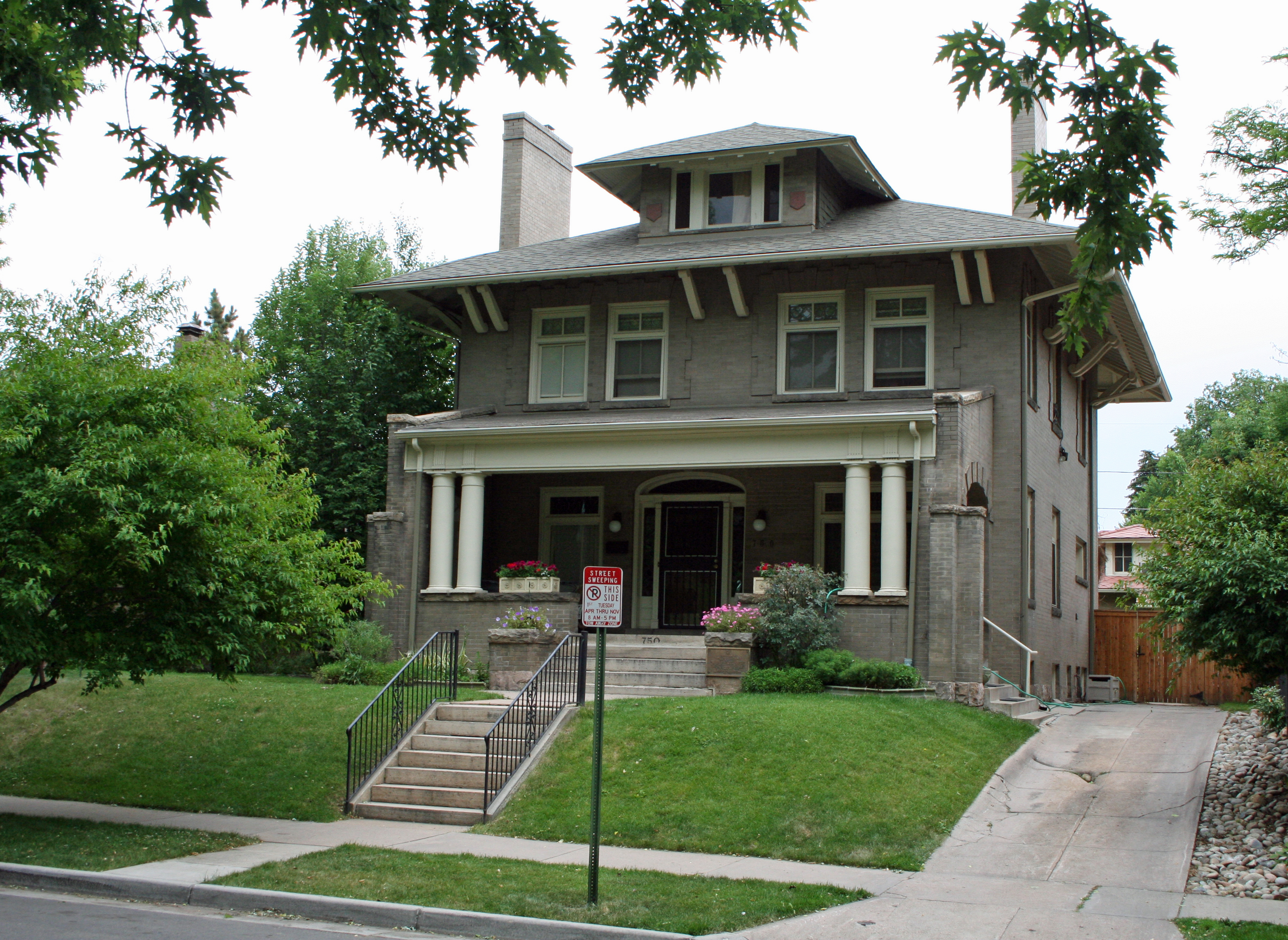 The John and Elvira Doud House, located at 750 Lafayette Street in Denver, Colorado. The house is listed on the National Register of Historic Places.